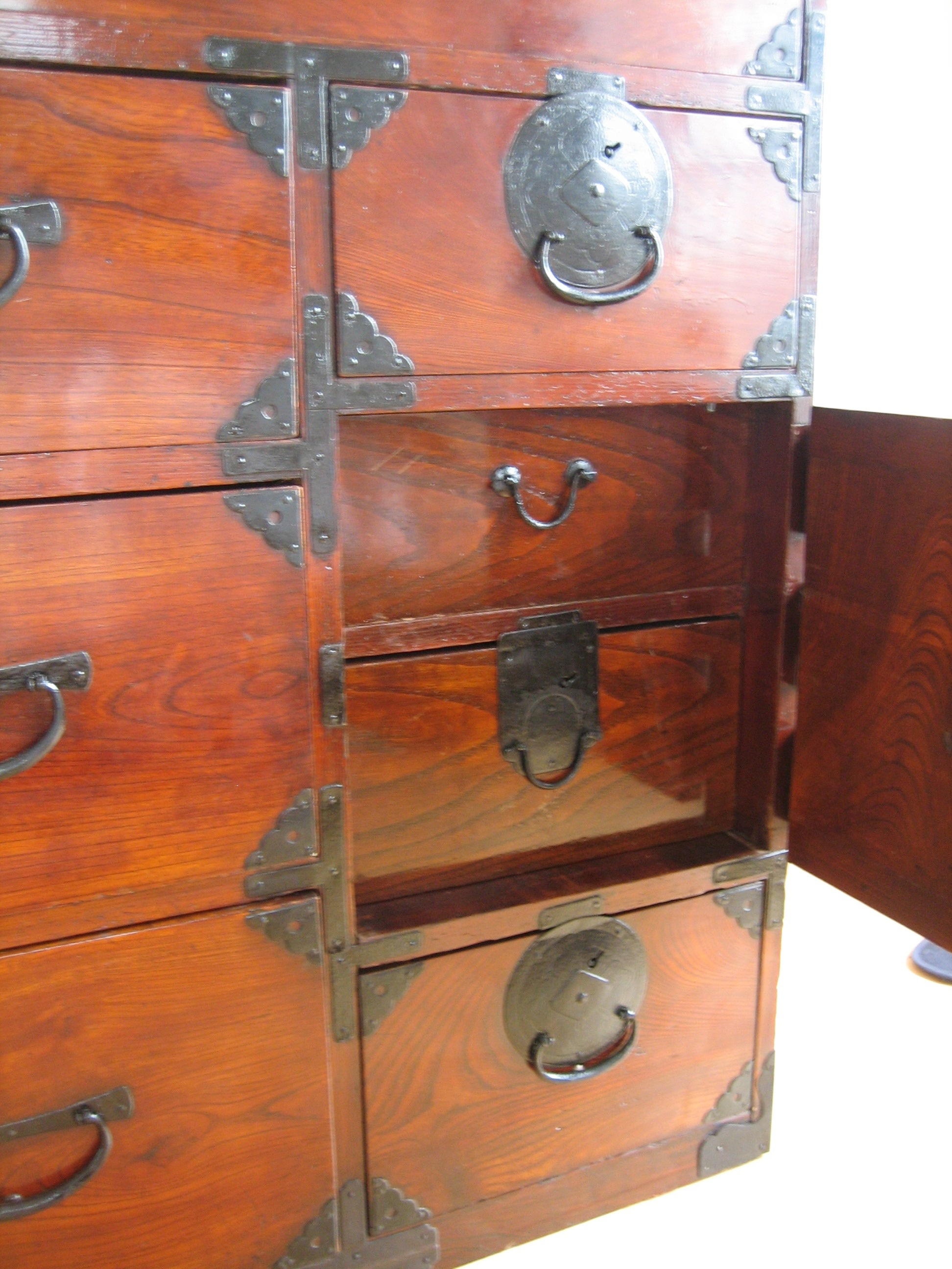 Detail of a Sendai-dansu from the Meiji period; showing lockable door and compartment drawers. Wood is Zelkova